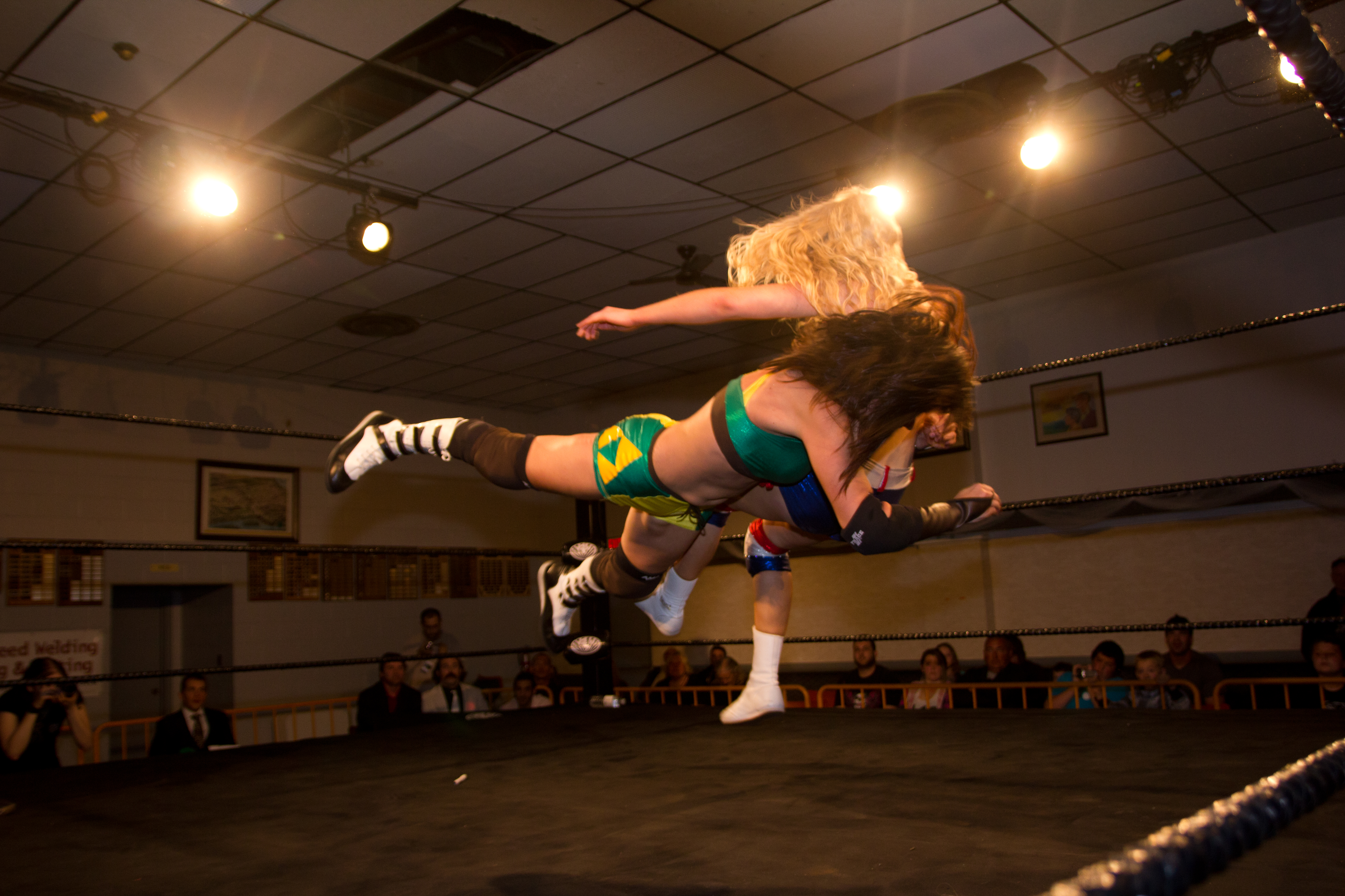 Wrestler Courtney Rush (in yellow and green) executing a spear against Leah von Dutch